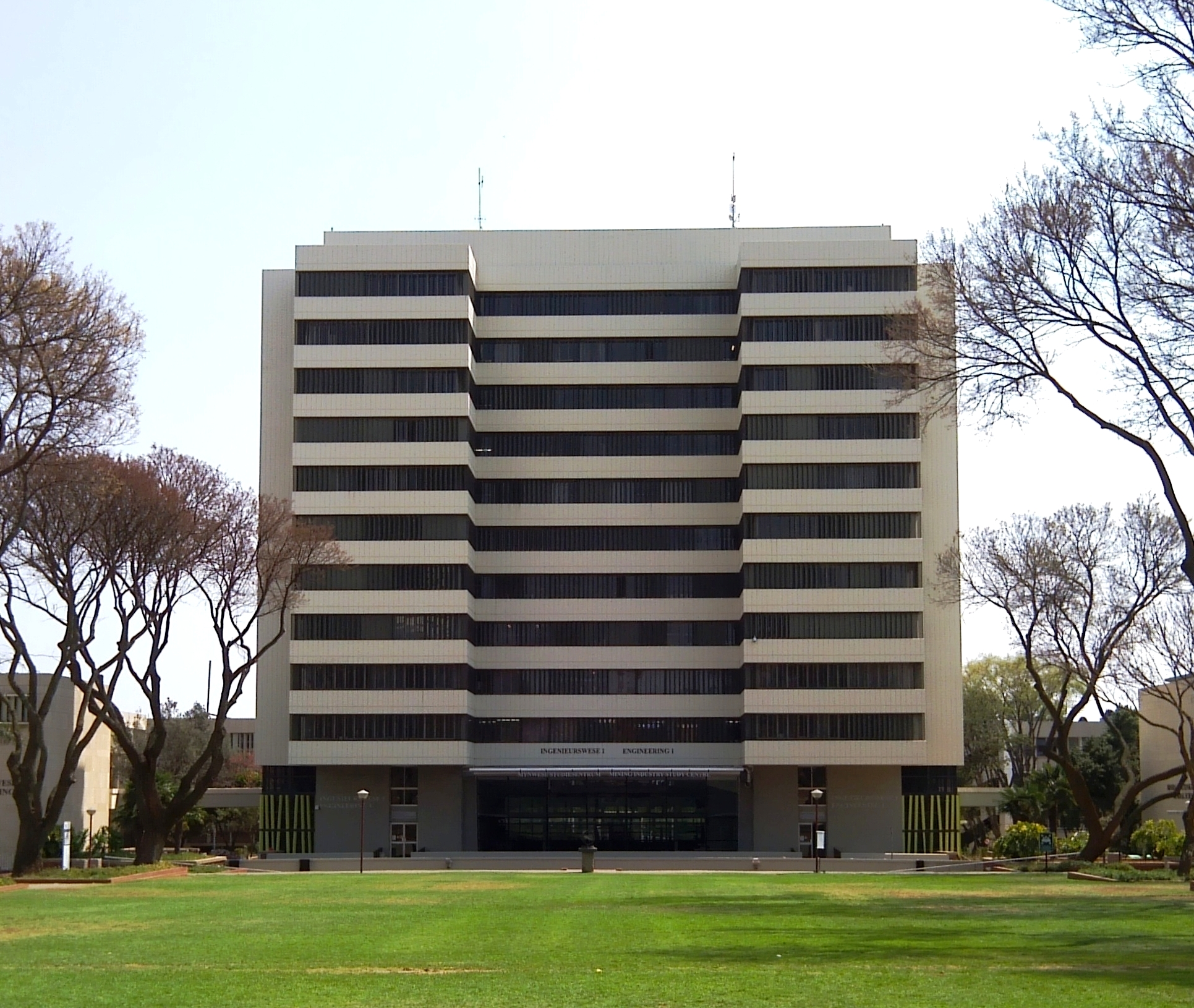 Engineering 1 building at the University of Pretoria